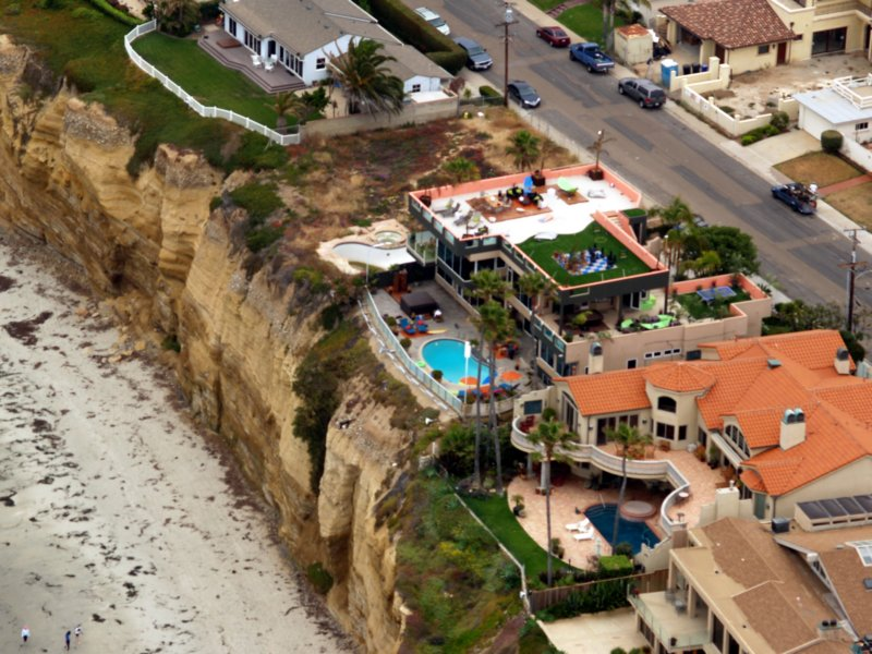 A photo of the 2011 Real World: San Diego house in San Diego as seen from a helicopter Please acknowledge "Phil Konstantin" as the creator of this photograph.